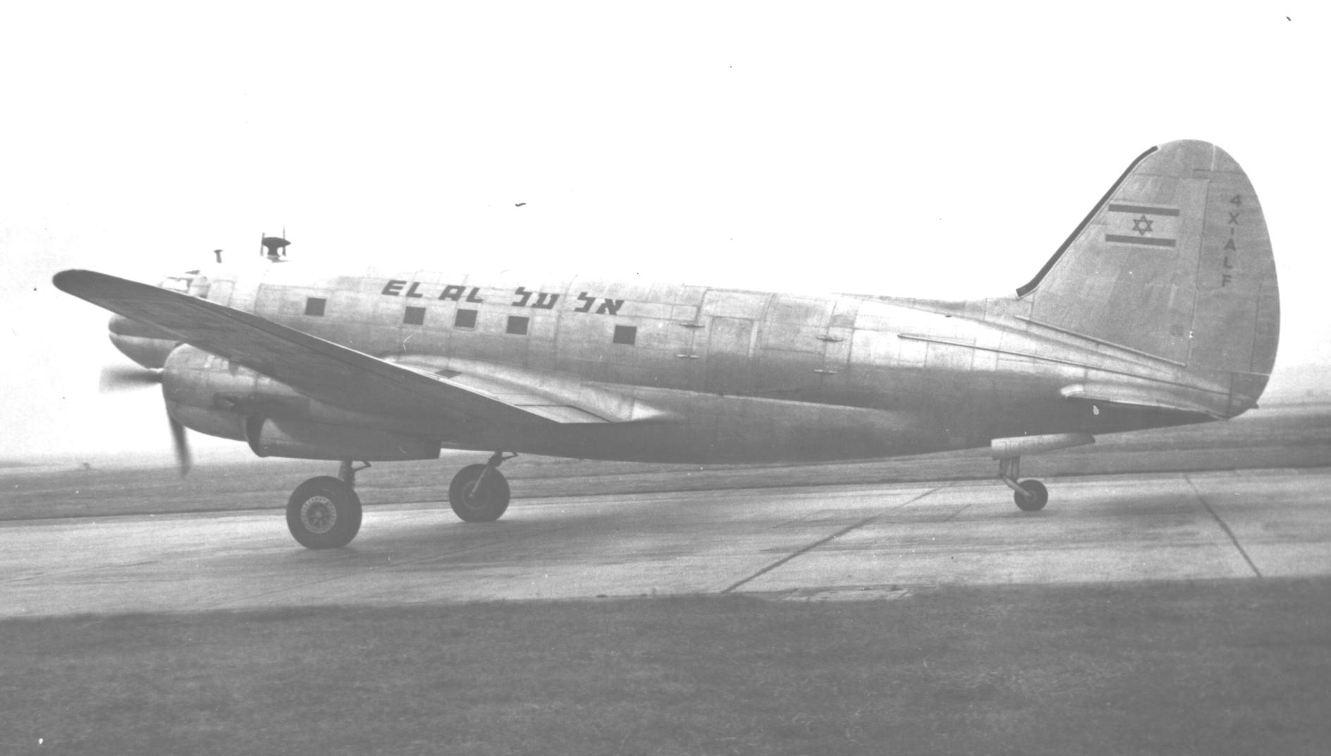 Curtiss C-46D freighter 4X-ALF of El Al at London (Heathrow) Airport